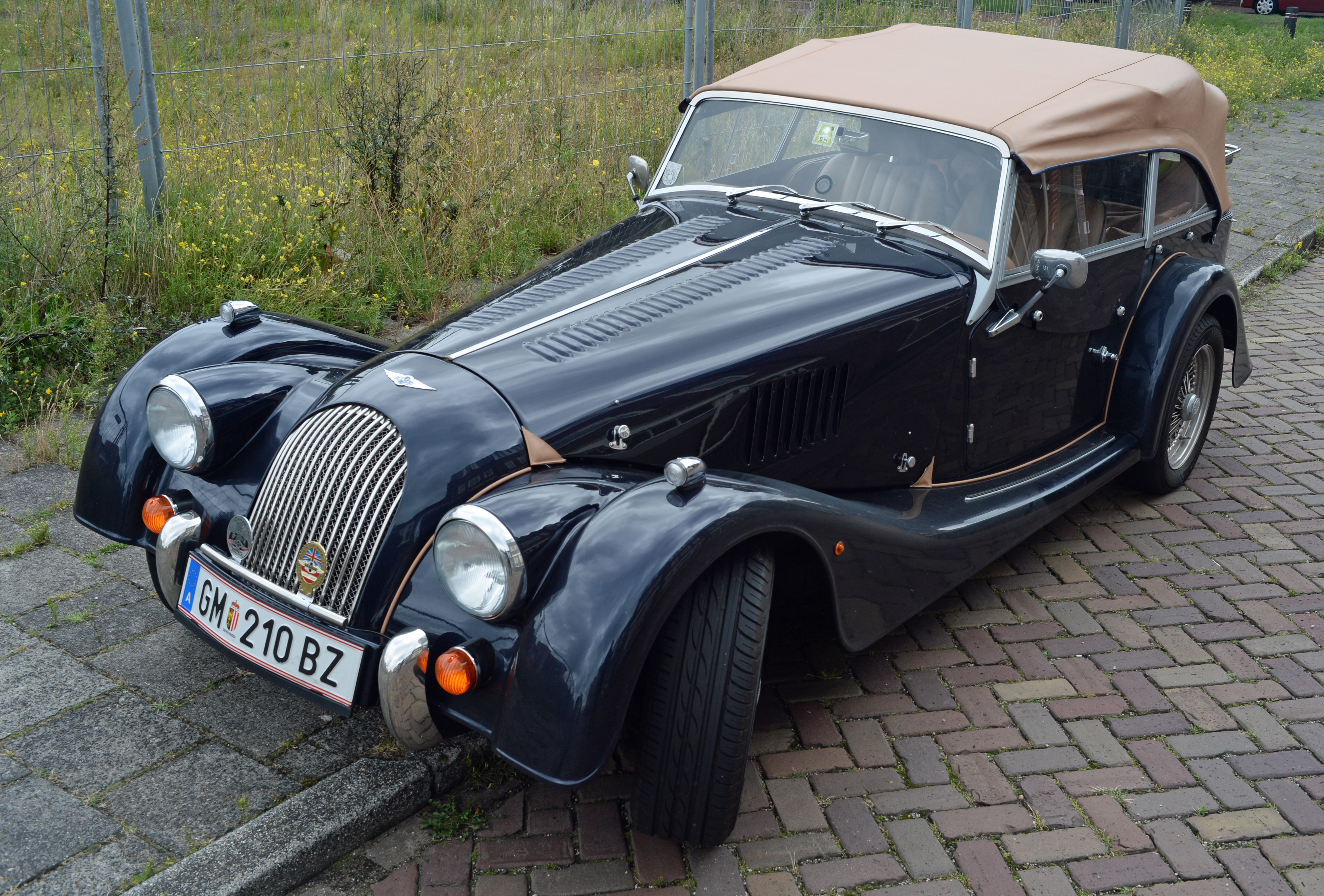 Morgan plus 4 4 seater